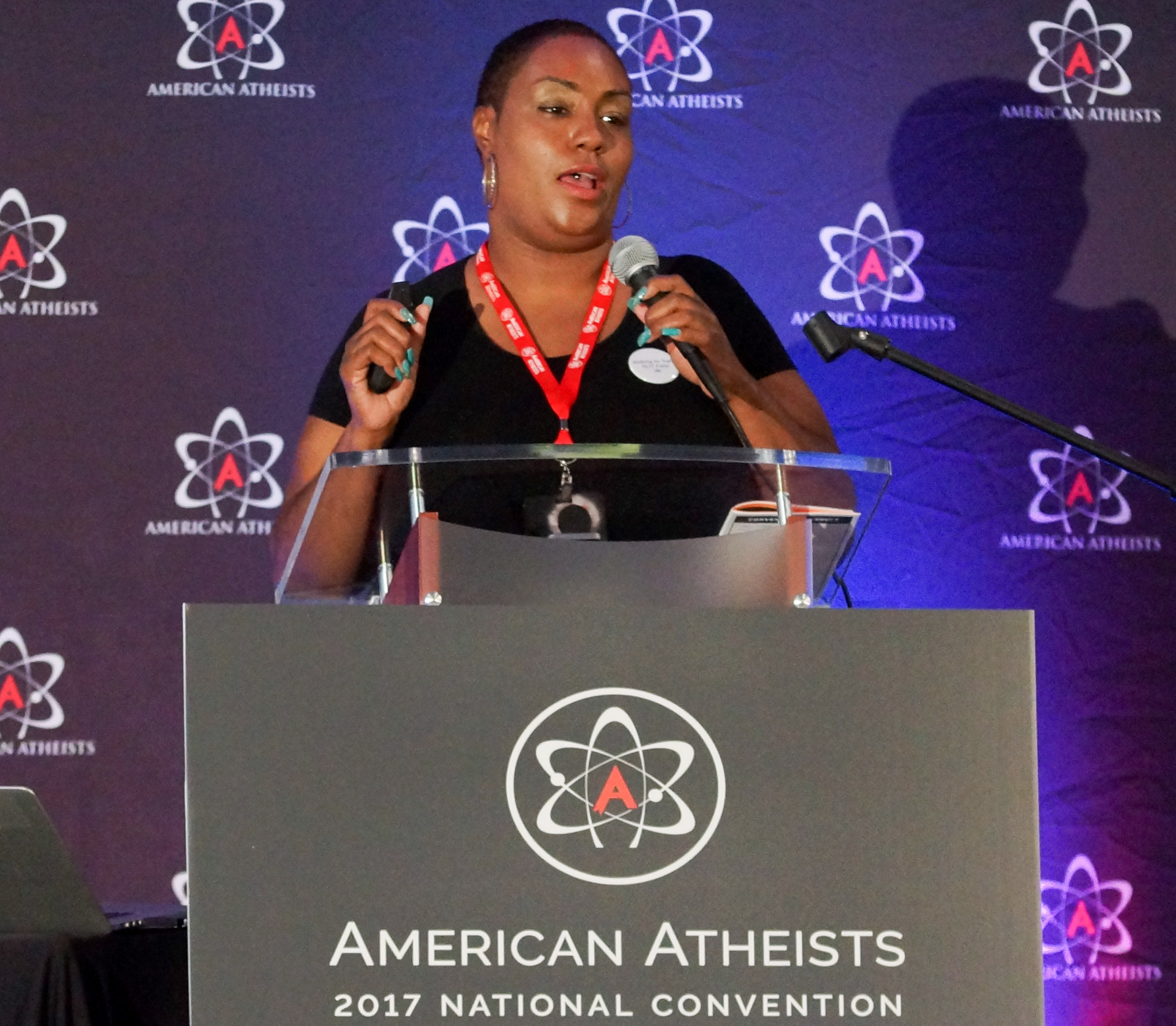 Tight crop of Mandisa Lateefah Thomas, President of Black Nonbelievers, speaking at the American Atheists Convention, held August 19-21, 2017 in North Charleston, SC.